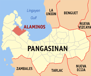 Map of Pangasinan showing the location of Alaminos City